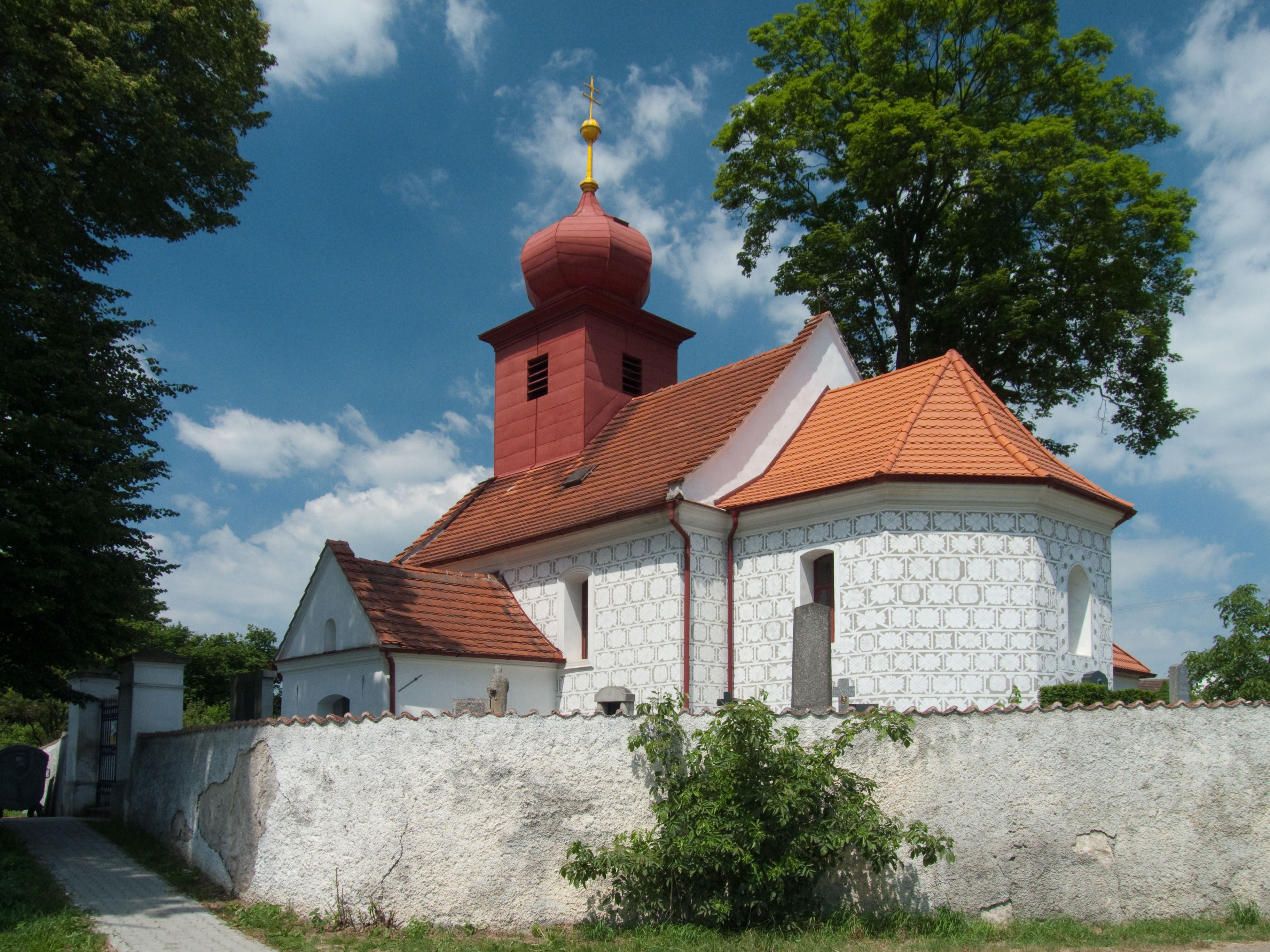 Virgin Mary and Saint Wenceslaus Church in the village of Blanice, part of Mladá Vožice, Tábor District, Czech Republic